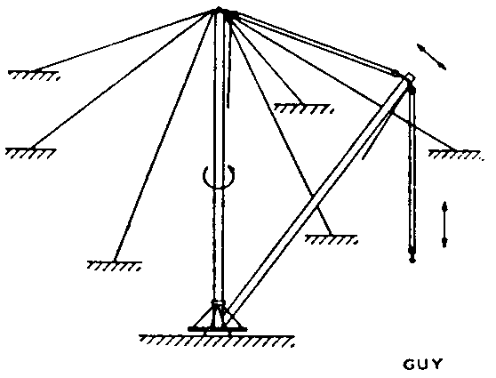 "Guy derrick" means a fixed derrick consisting of a mast capable of being rotated, supported in a vertical position by guys, and a boom whose bottom end is hinged or pivoted to move in a vertical plane with a reeved rope between the head of the mast and the boom point for raising and lowering the boom, and a reeved rope from the boom point for raising and lowering the load.